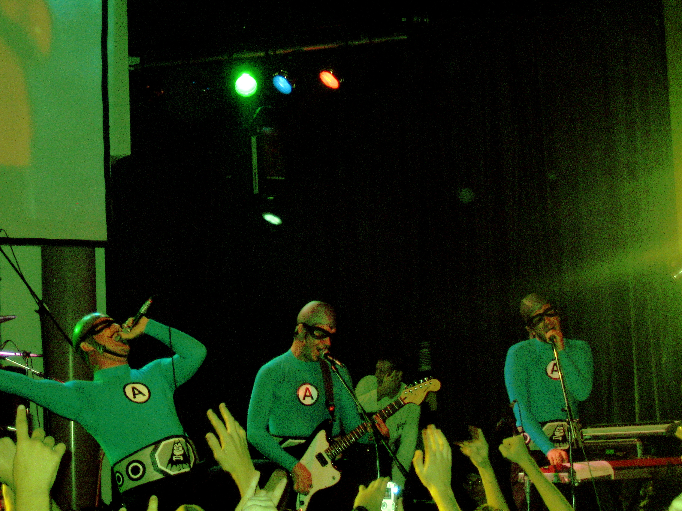 The Aquabats performing at Mr. Small's Theatre in Pittsburgh, Pennsylvania on August 15, 2005.